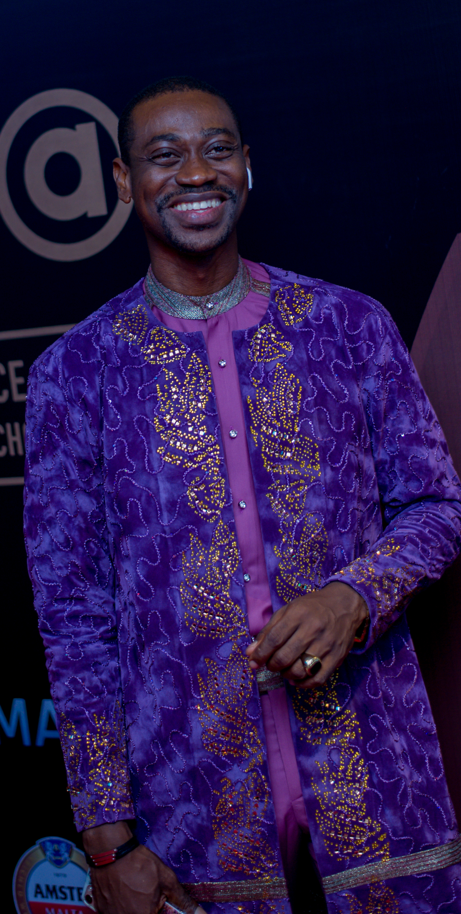 Pictures from AMVCA 2020